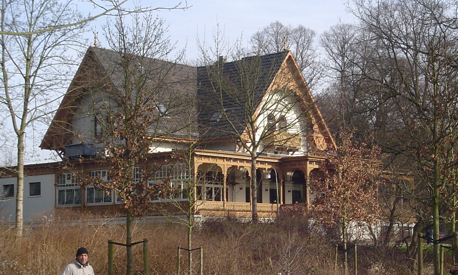 Meierei in the Bürgerpark in Bremen, Germany. Now a restaurant. Shot from West Das abgebildete Objekt ist ein geschütztes Kulturdenkmal in der Freien Hansestadt Bremen, mit der Nr. 0218,T004 beim Landesamt für Denkmalpflege registriert.